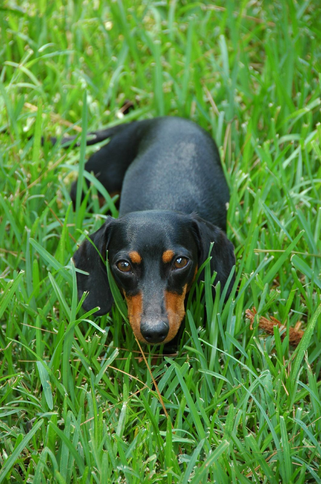 A black-and-tan smooth-haired Dachshund.